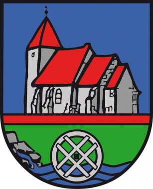 This graphic shows the coat of arms of the town Kirchwalsede in Rotenburg (Wümme), Lower-Saxony.